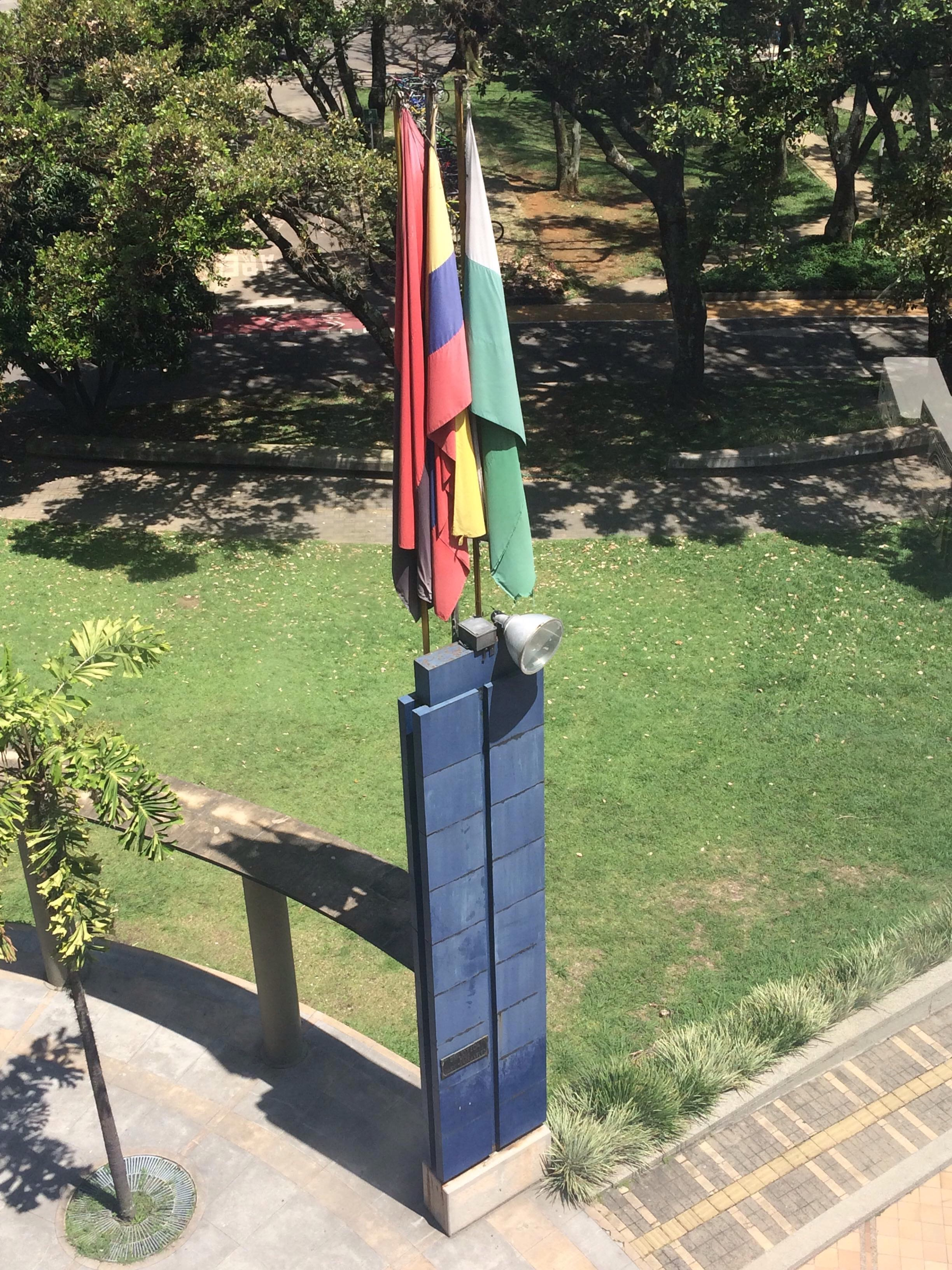 Banderas de Colombia, Antioquia, y de la Universidad Pontificia Bolivariana en la Biblioteca central de dicha Institución (Medellín, Colombia).